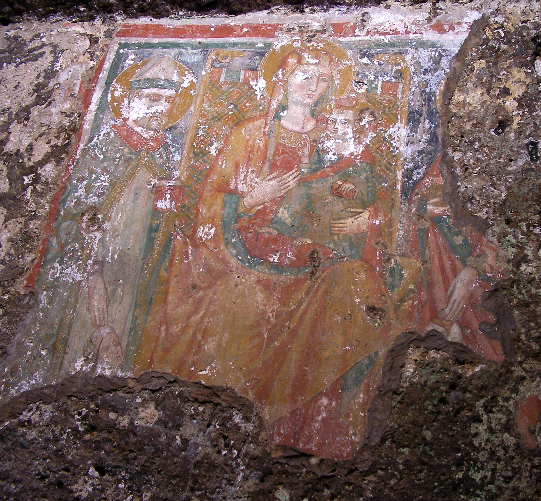 Fresco of the Madonna and a Bishop in the rock-cut church Madonna del Parto, Sutri, Italy